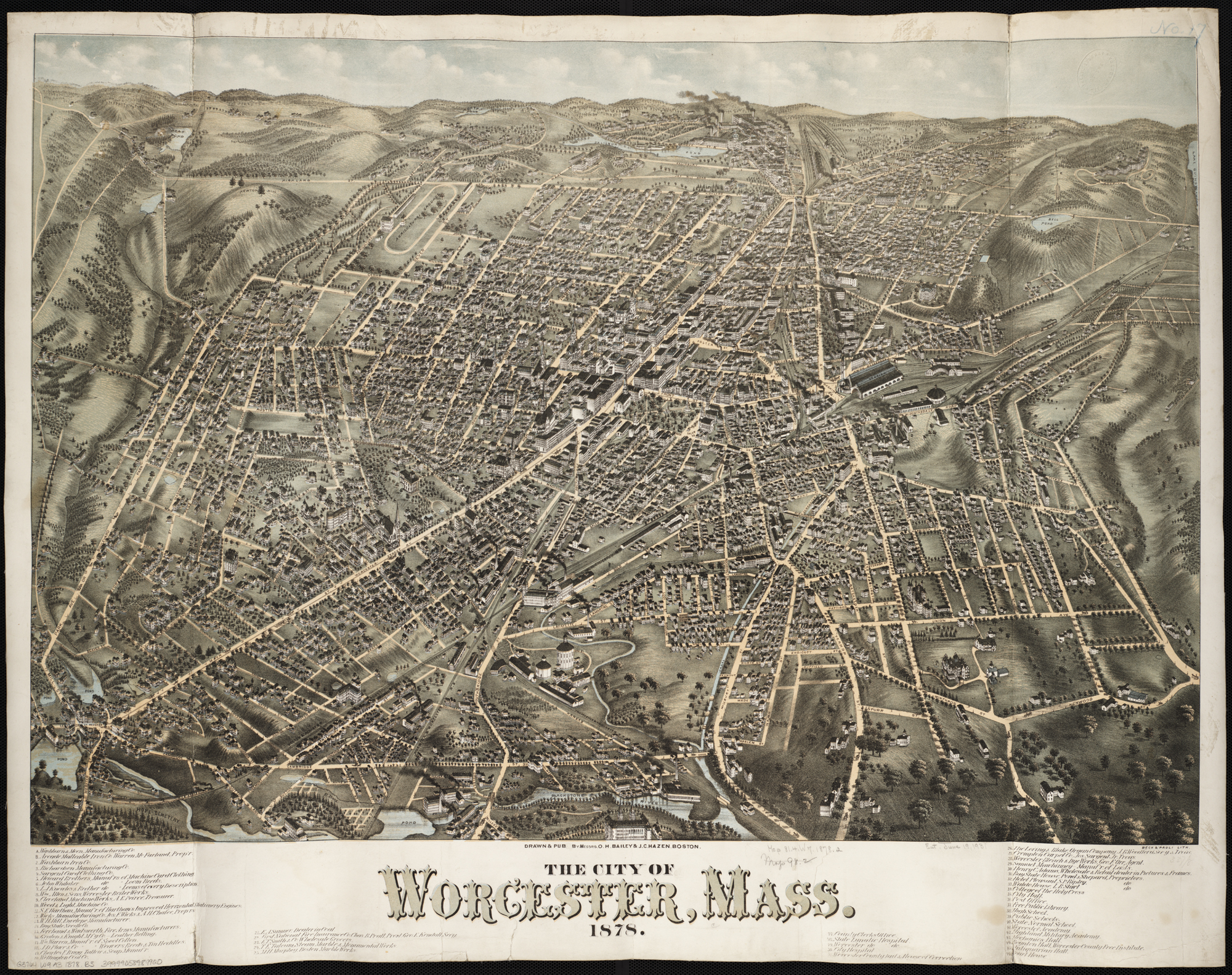 Zoom into this map at . Author: Bailey, O. H. Publisher: O.H. Bailey Date: 1878. Location: Worcester (Mass.) Scale: Not drawn to scale. Call Number: G3764.W9A3 1878.B3